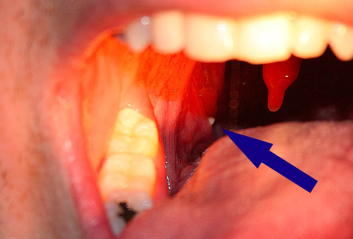 Here is a tonsil stone protruding from my tonsil. After prodding with my finger, it was dislodged.